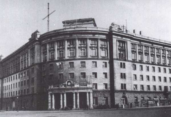 SMR Dalian Harbor Office